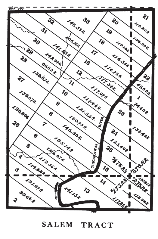 A map of a tract of land in Tuscarawas County, Ohio set aside for Christian Munsee in the 18th century. see Moravian Indian Grants